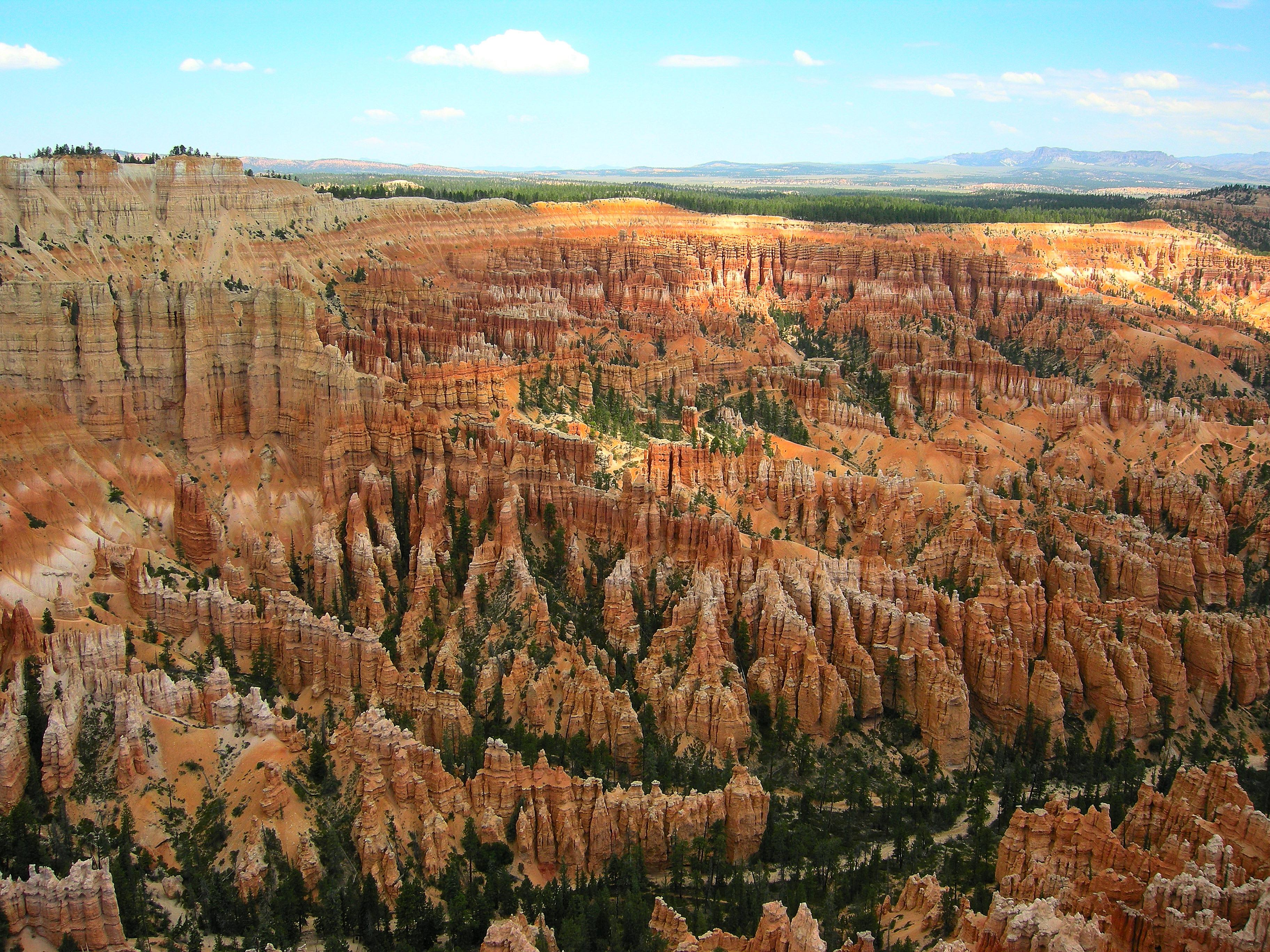 Bryce Canyon National Park, Utah, USA